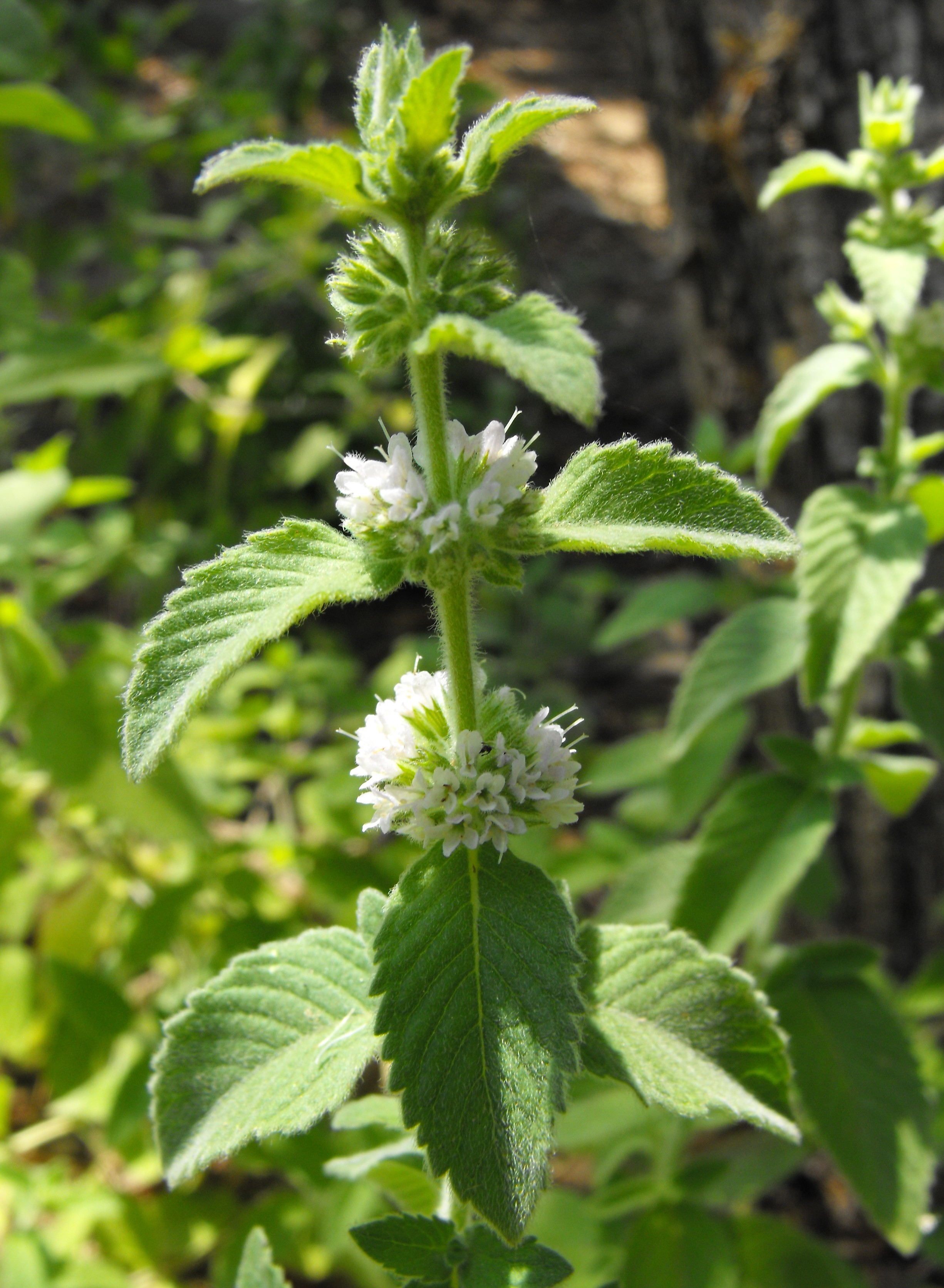 Mentha arvensis at the San Diego Wild Animal Park, Escondido, California, USA.